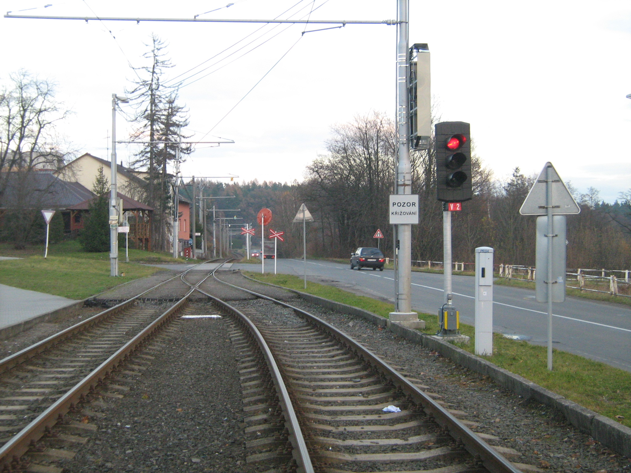 Dolní Lhota (Ostrava-City District) — safety installation of tram line Ostrava — Kyjovice.